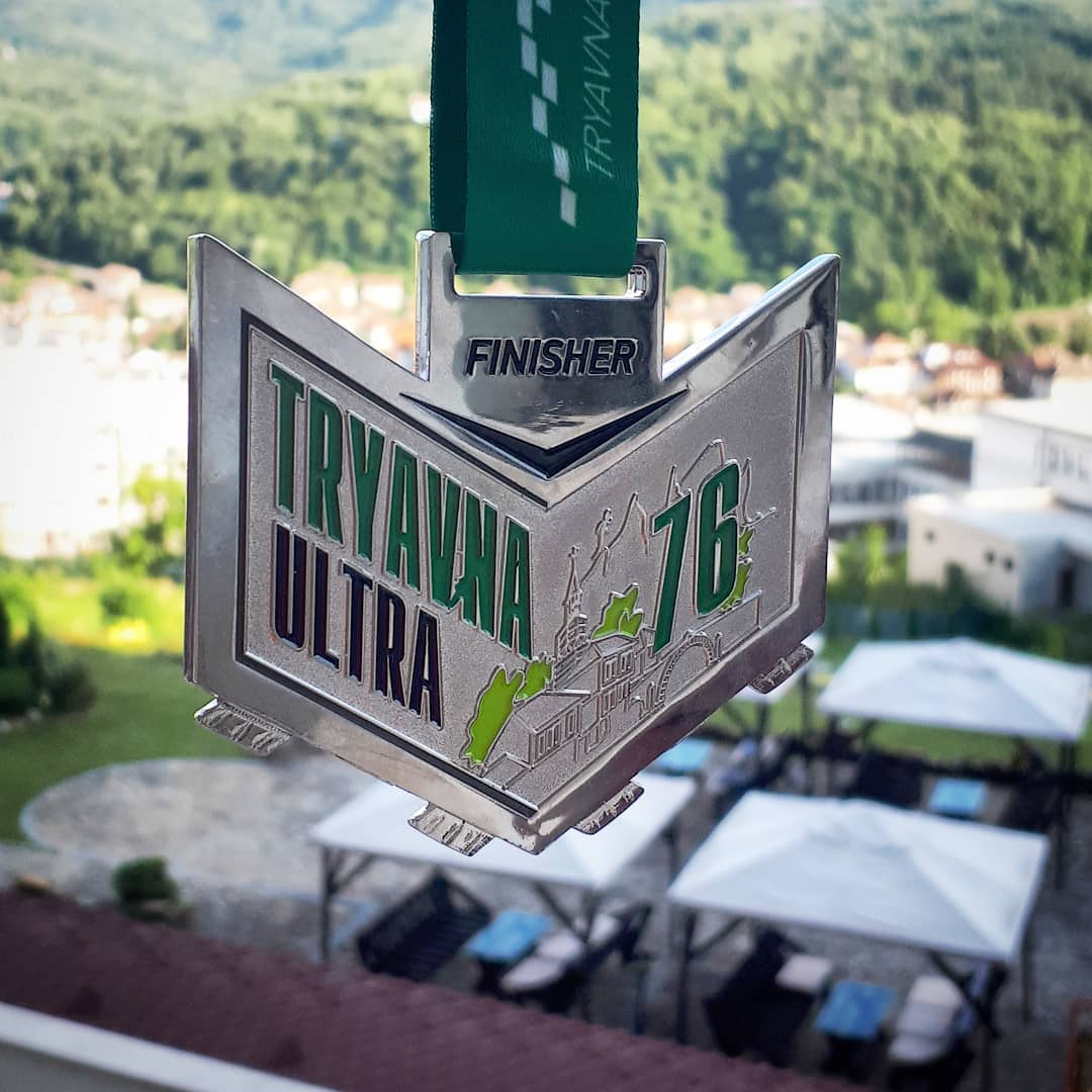 A medal for every finisher in Tryavna Ultra 76km ultramarathon